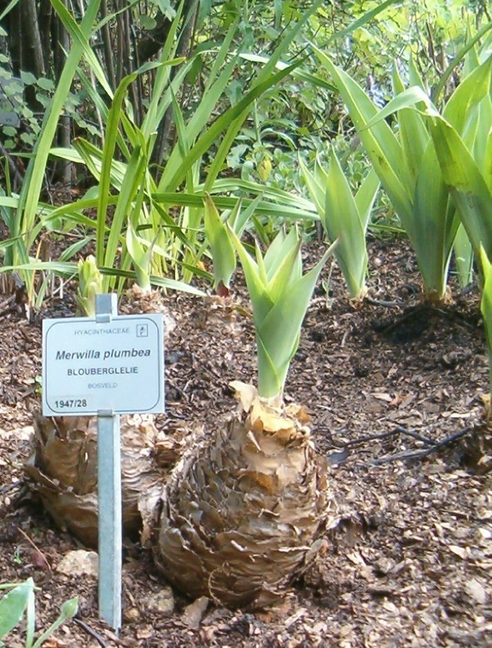 At Kirstenbosch National Botanical Gardens Species Merwilla plumbea